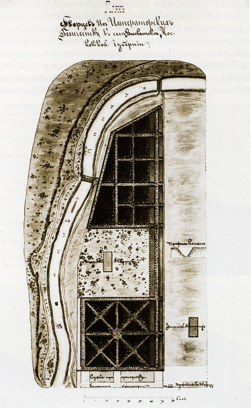 The plan of Vsekhsviatskoe garden and Imperial palaces